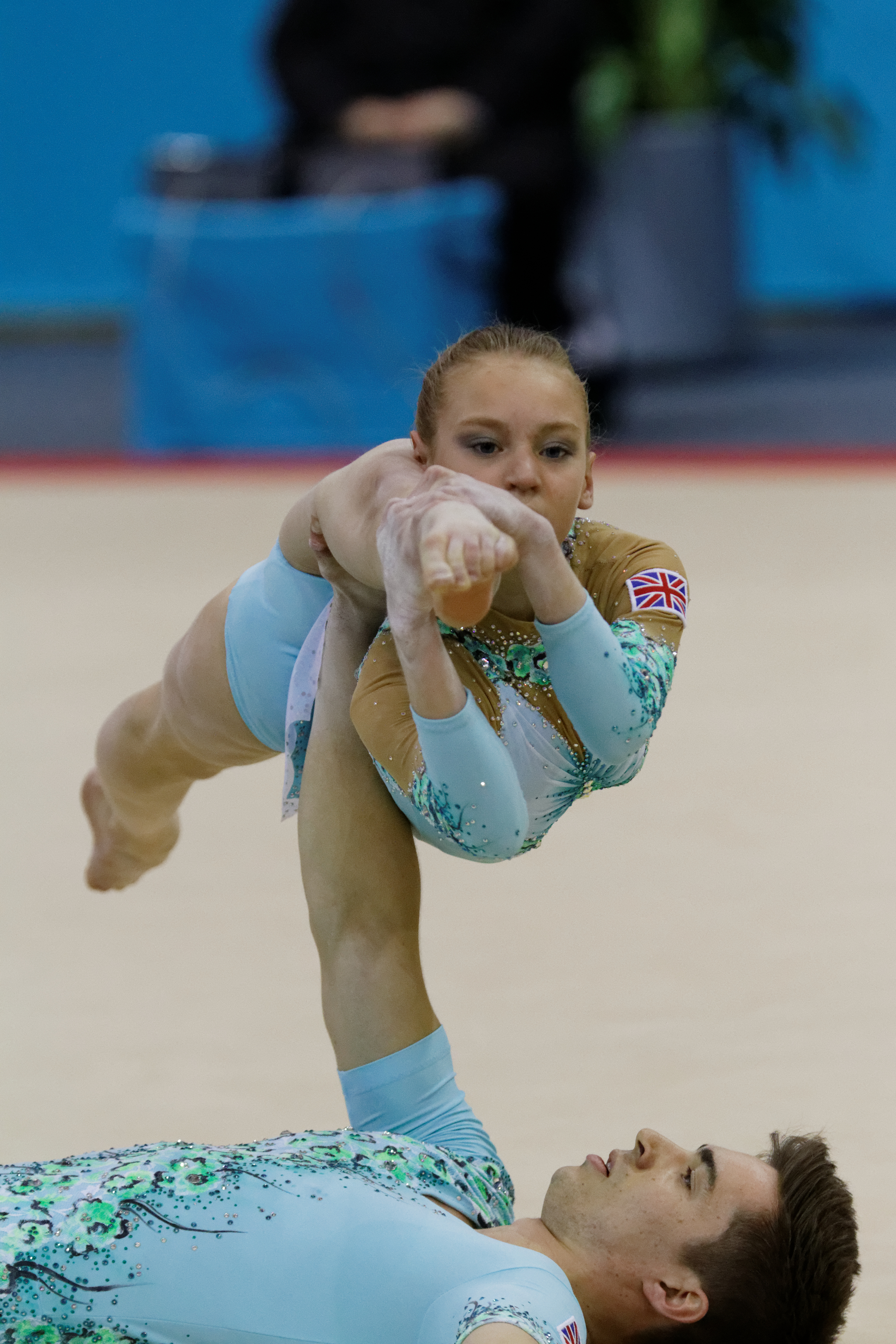 2014 Acrobatic Gymnastics World Championships, 10th-12 July, Levallois-Perret, France. Qualifications: mixed pair. Great Britain.